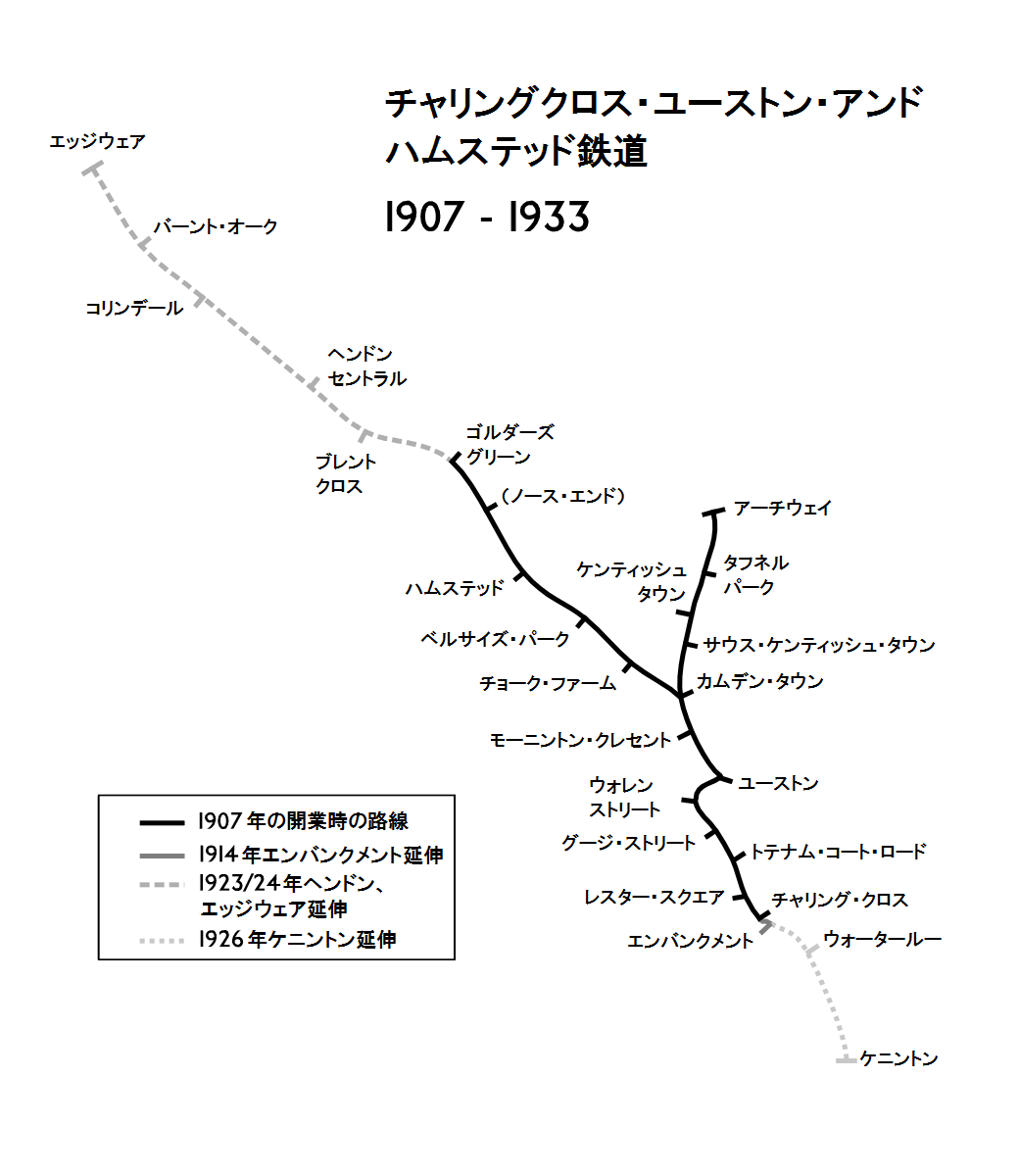 Geographic Map of the Charing Cross, Euston & Hampstead Railway (CCE&HR). See also Image:C&SLR.svg based on Image:Northern Line.svg by User:Ed g2s